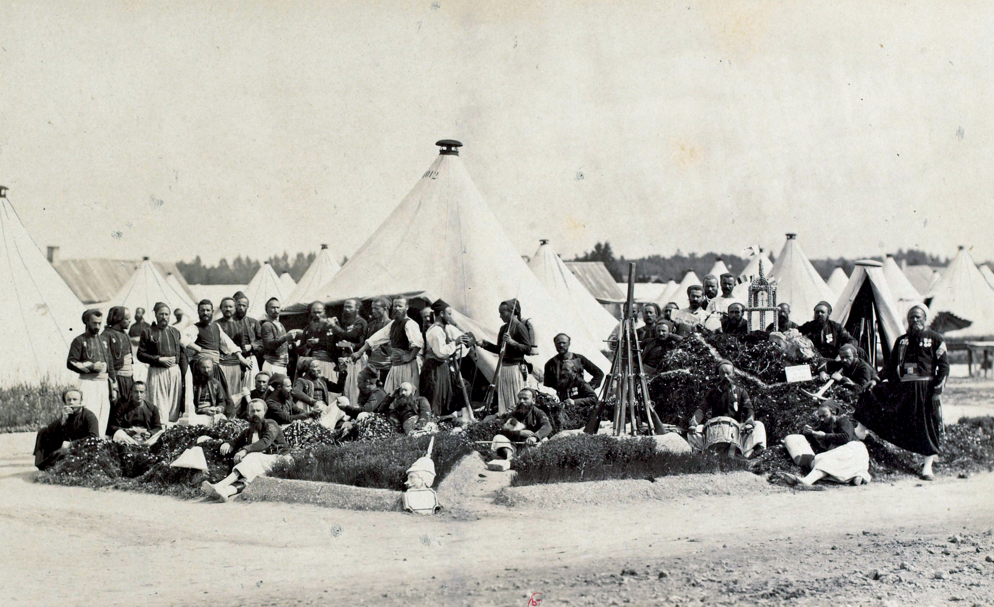 Photograph.